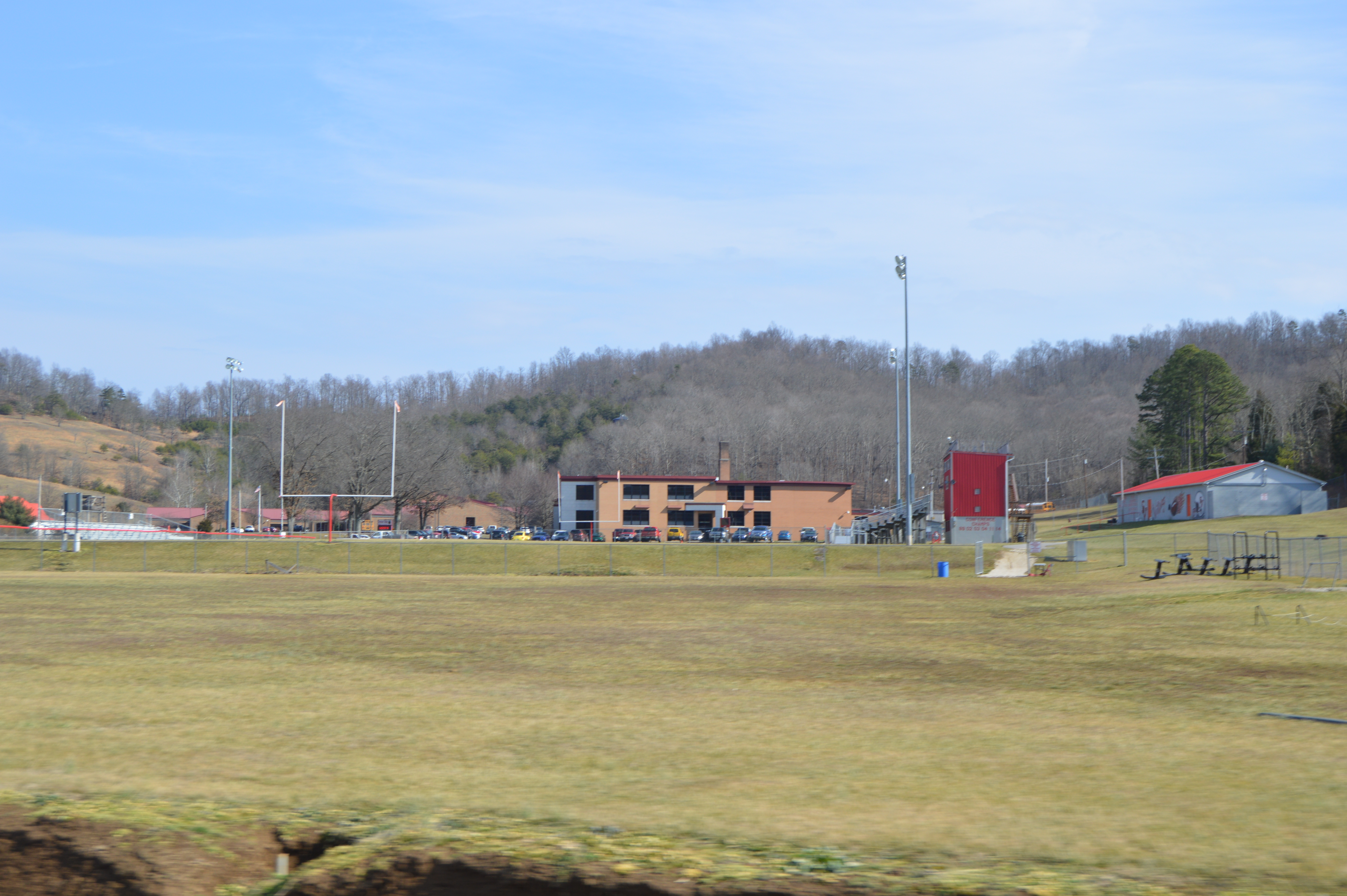 Looking east from State Route 141 toward athletic fields at Symmes Valley High School in far eastern Aid Township, Lawrence County, Ohio, United States.